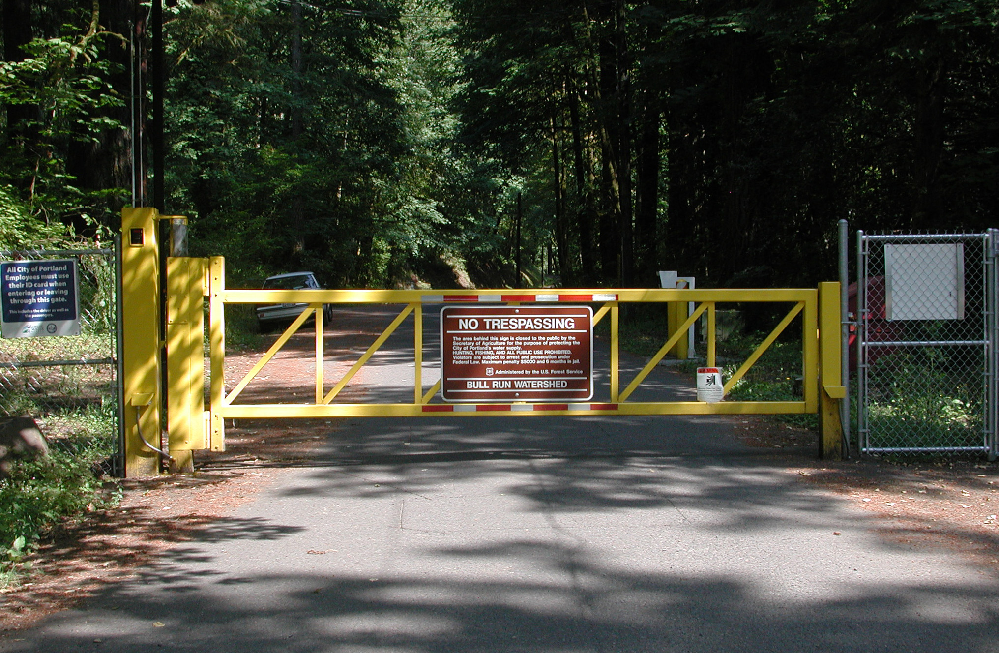 Locked gate at the western entrance to the Bull Run Management Unit near Bull Run, Oregon, in the United States.